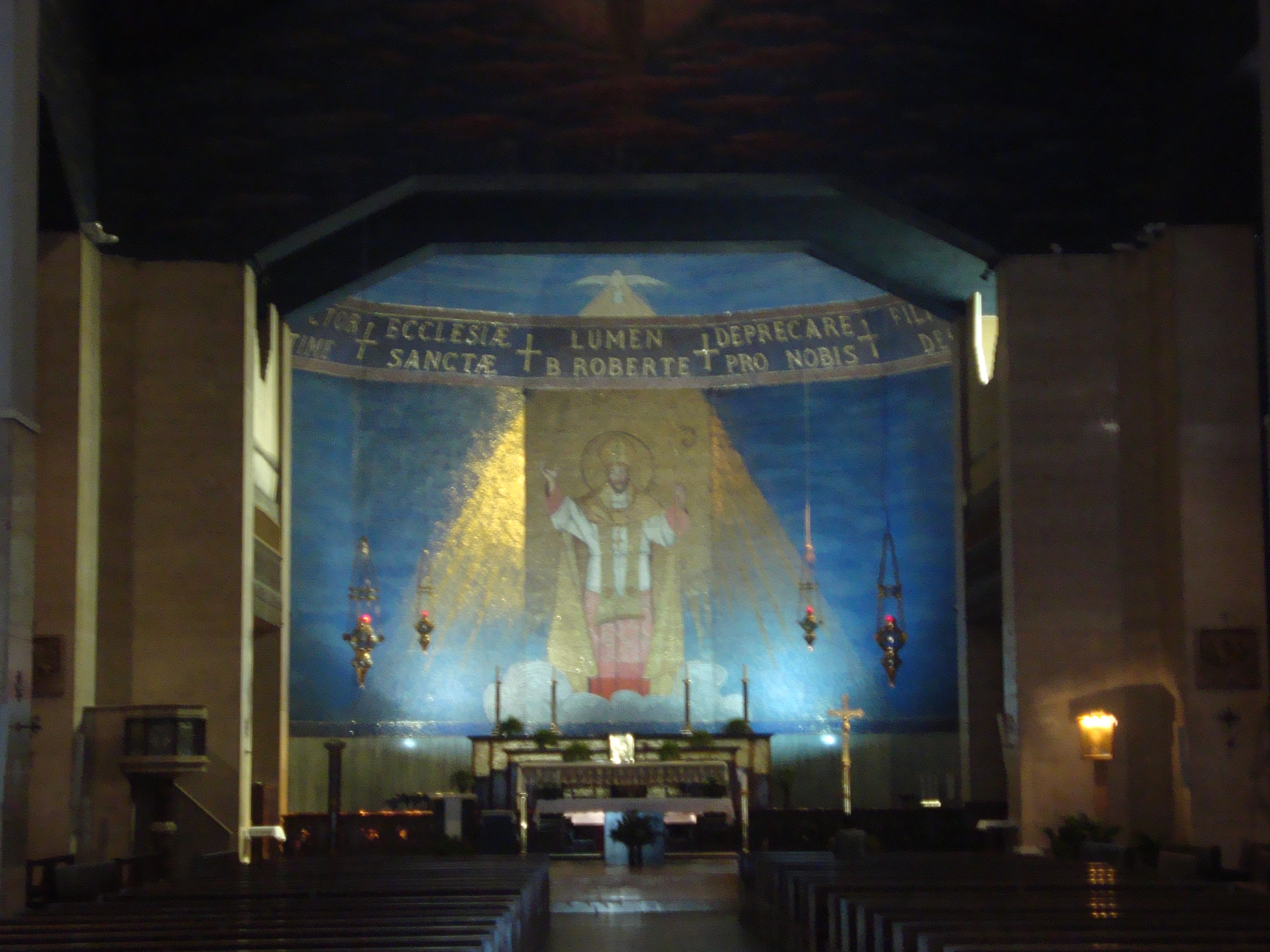 Interior view of the church San Roberto Bellarmino in the quartiere Parioli (piazza Ungharia), Rome